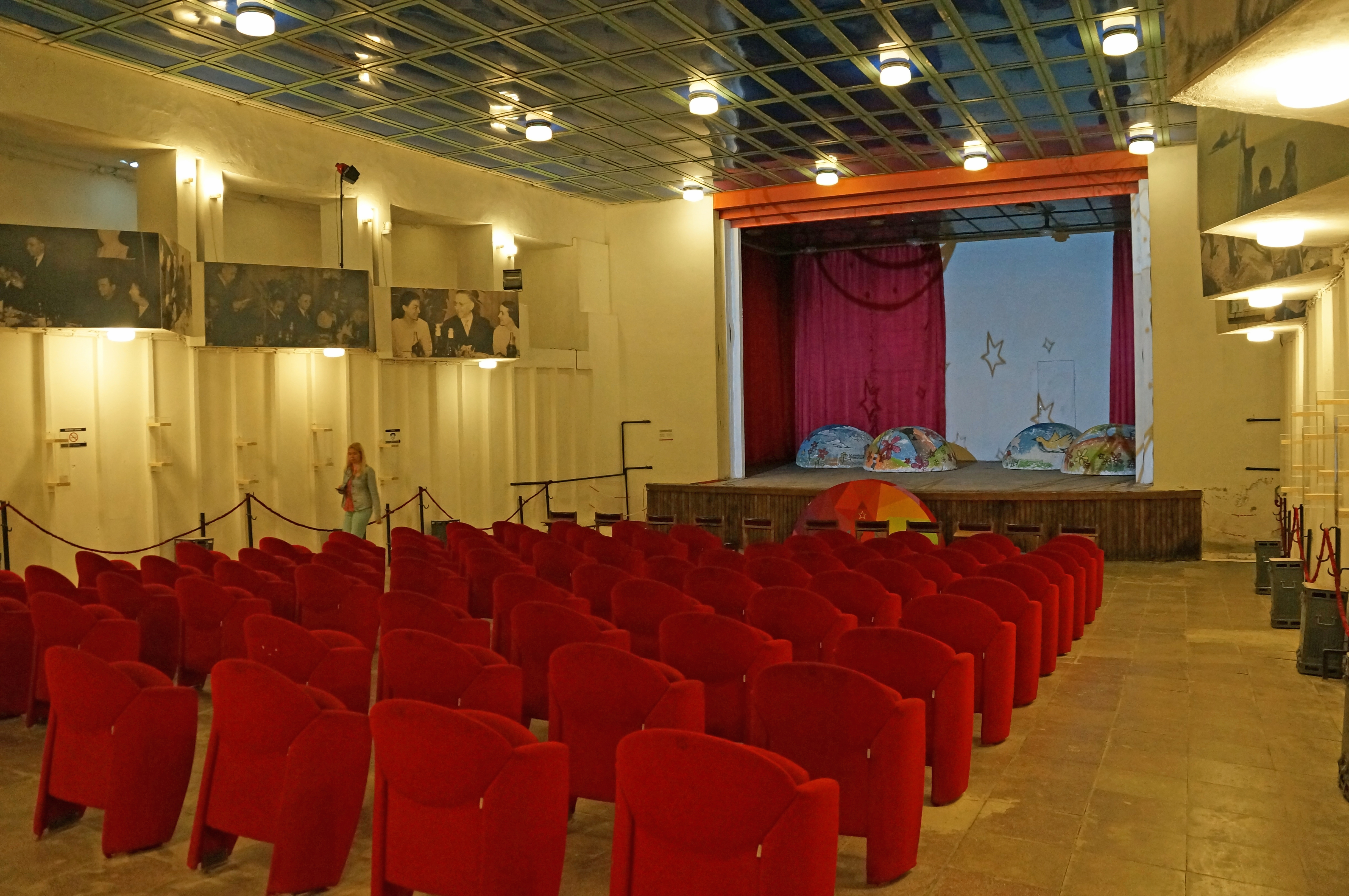 Bunk'art: Underground Theater in the Bunker